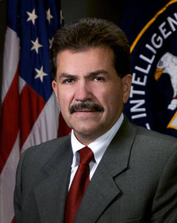 Undated handout photo of Jose Rodriguez provided by the CIA